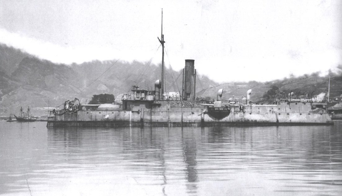 Japanese armoured gunboat Heien, former Chinese Ping Yuen.